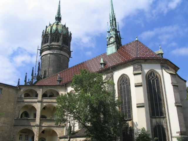 Schlosskirche (Palace Chapel) in Wittenberg